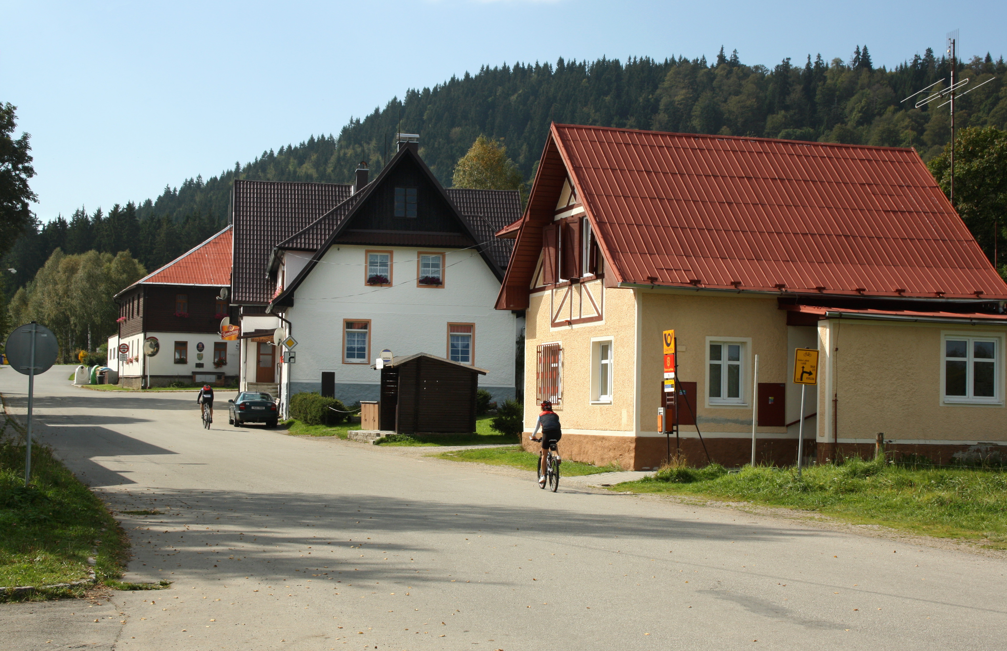 Post office in Borová Lada village, Czech Republic